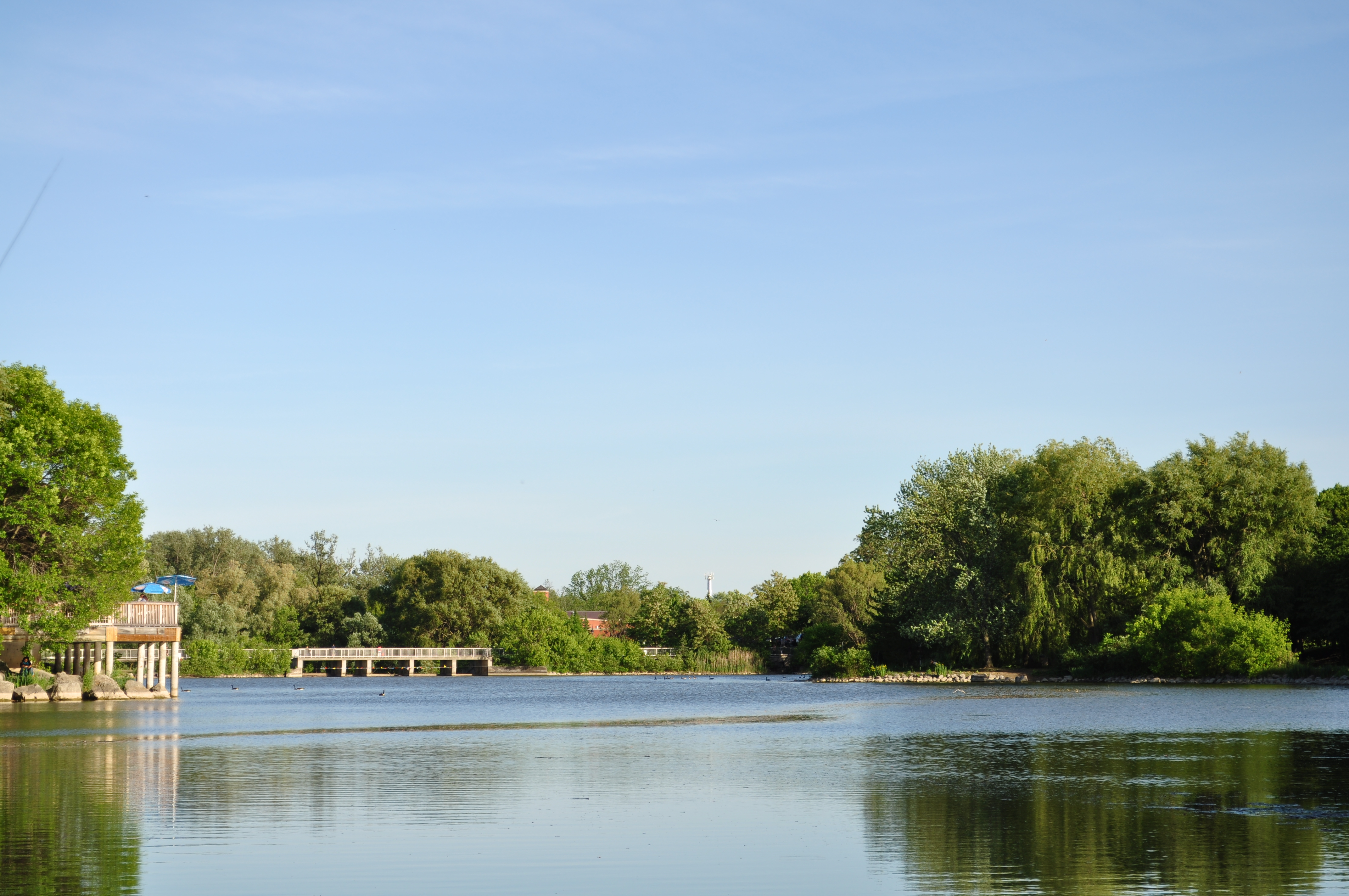 Toogood Pond, Unionville, Ontario, Canada